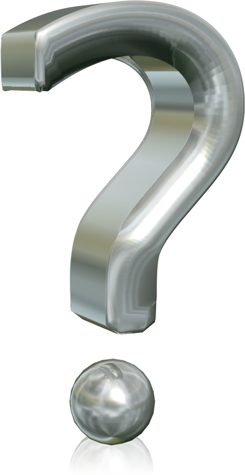 A three-dimensional question mark. For anyone interested: the font for the question mark is Bitstream Vera Sans, the reflection map used is Image:010609 28 villadesteacque.JPG